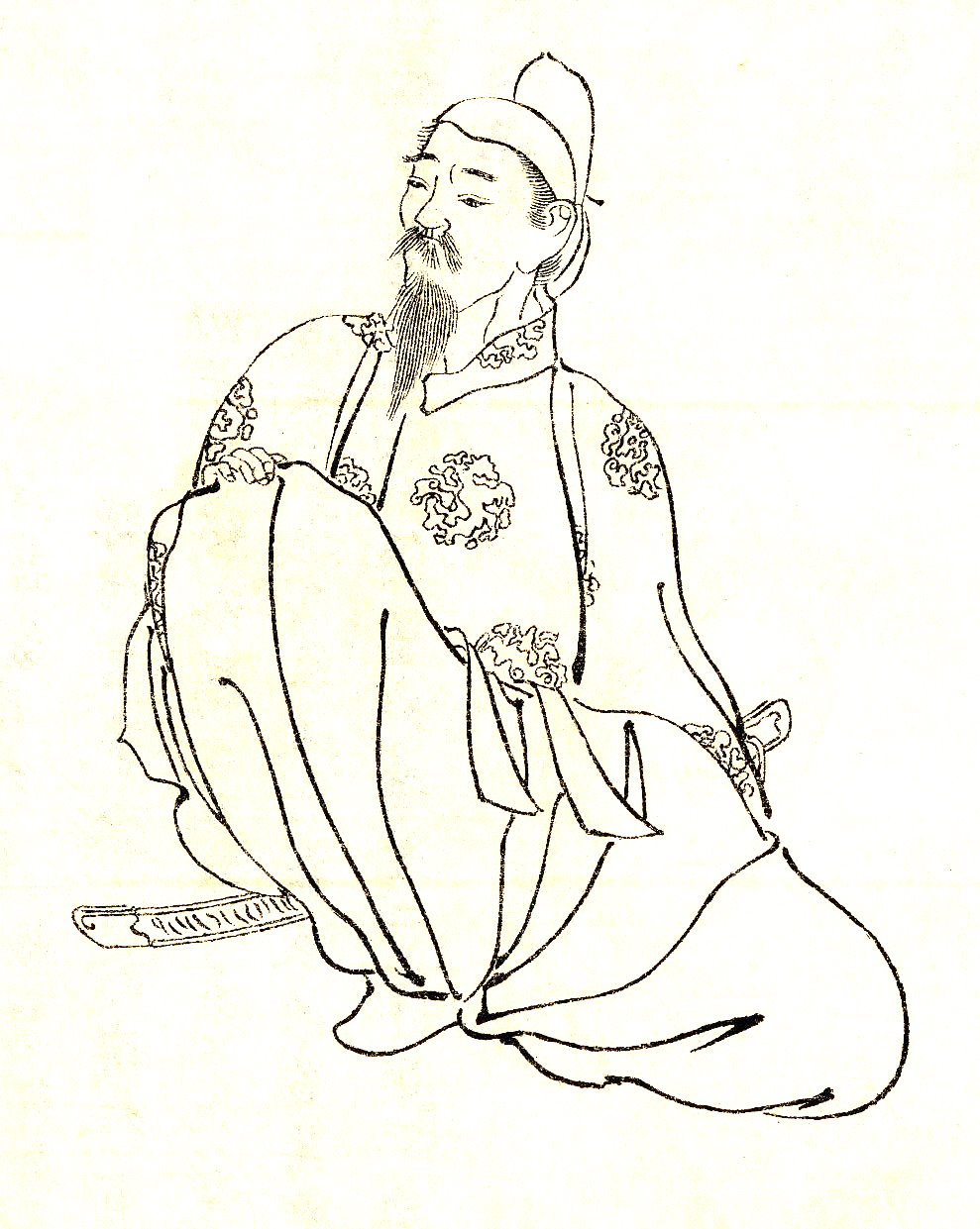 Kose no Maro（巨勢麻呂） was a Japanese court noble in the Nara period and a shogun with the title: 陸奥鎮東将軍.